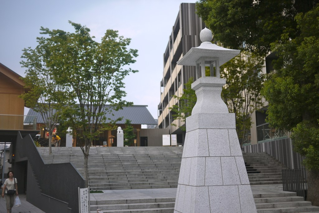 Photo of redeveloped Akagi Jinja in Kagurazaka, Shinjuku, Tokyo. August 2011.